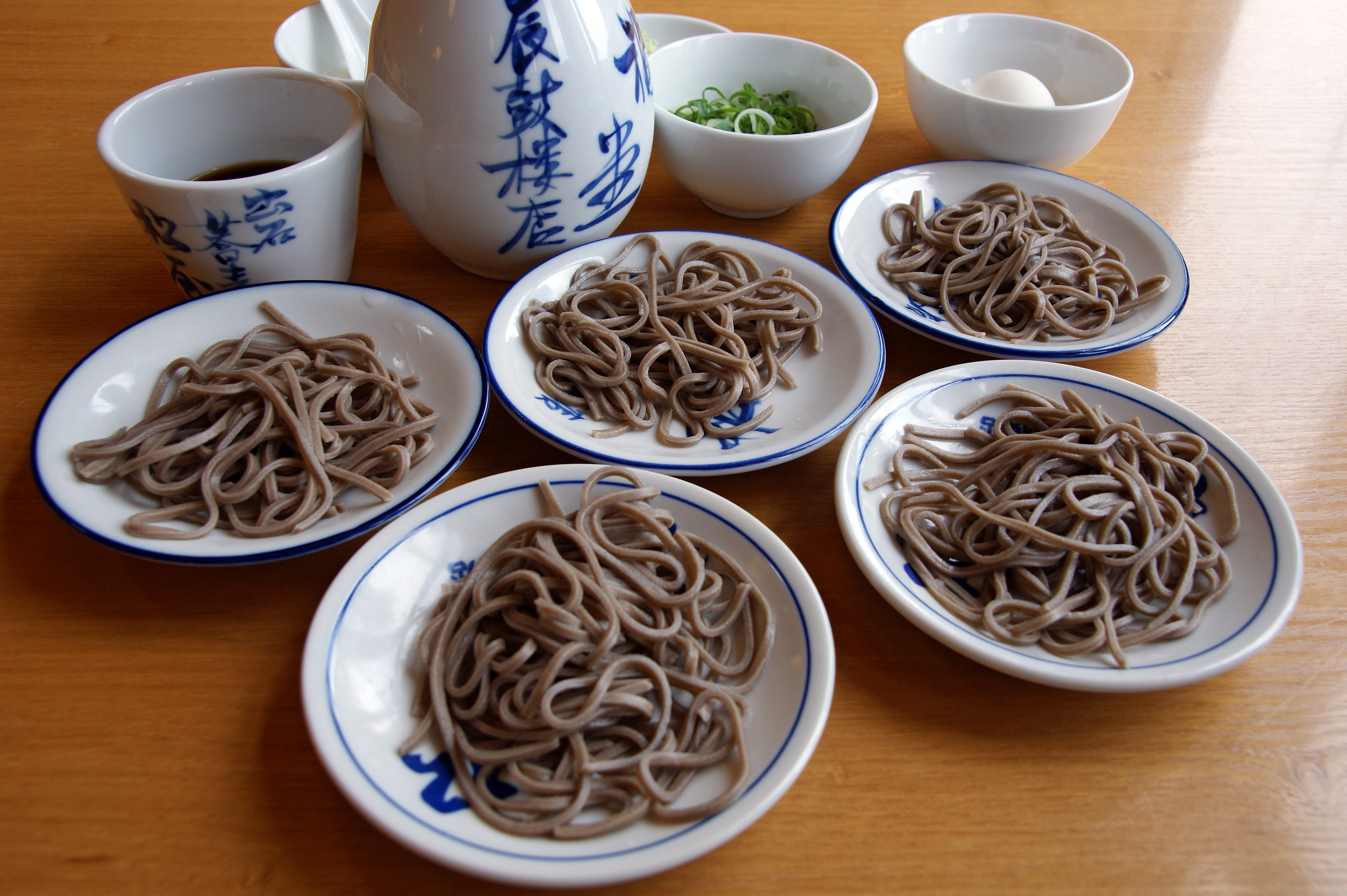 Izushi soba a variety of soba named after Izushi, Toyooka, Hyogo prefecture, Japan